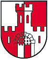 Coat of arms of Eferding, Upper Austria